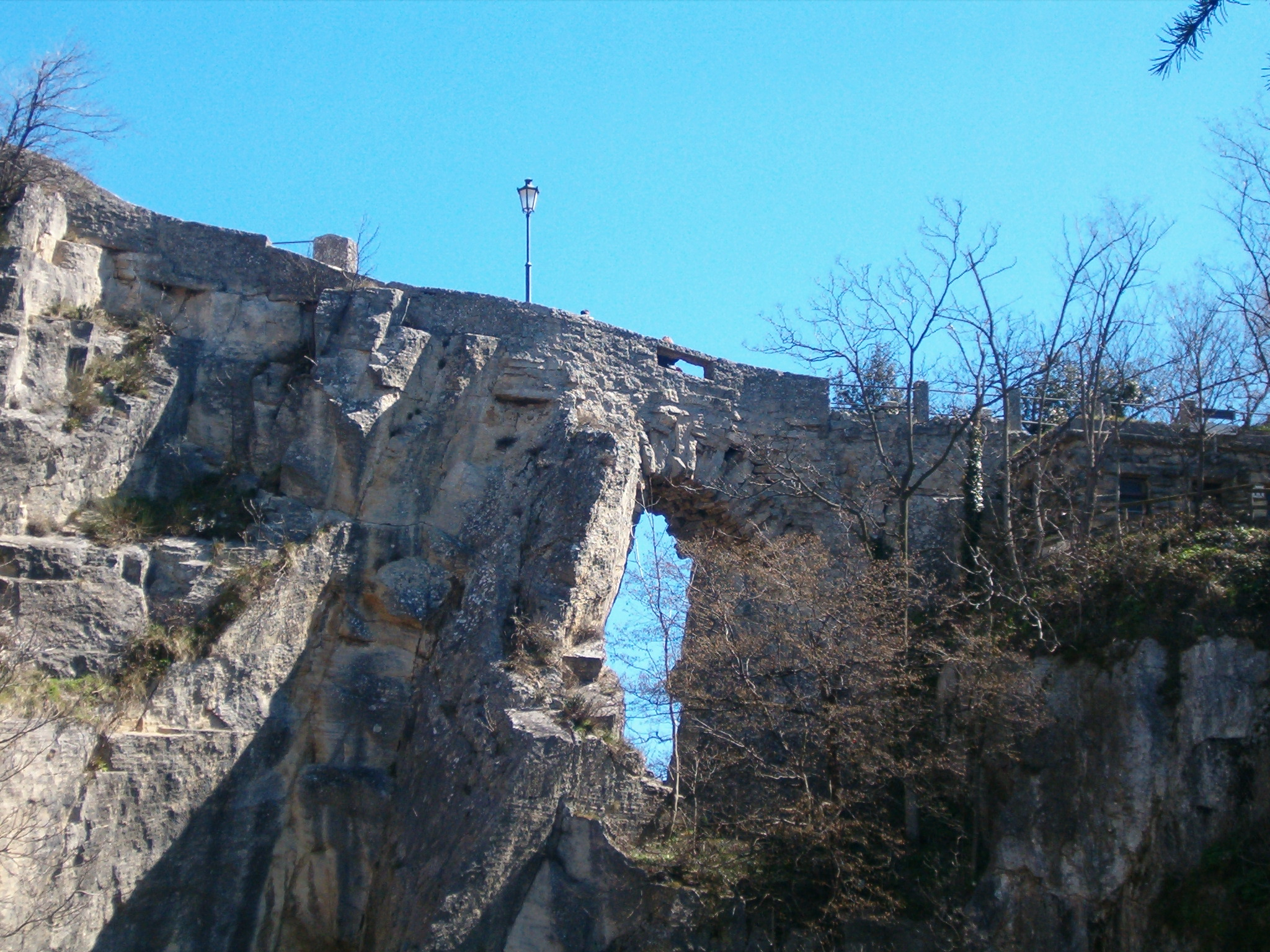 Detail of a castle in the Republic of San Marino.